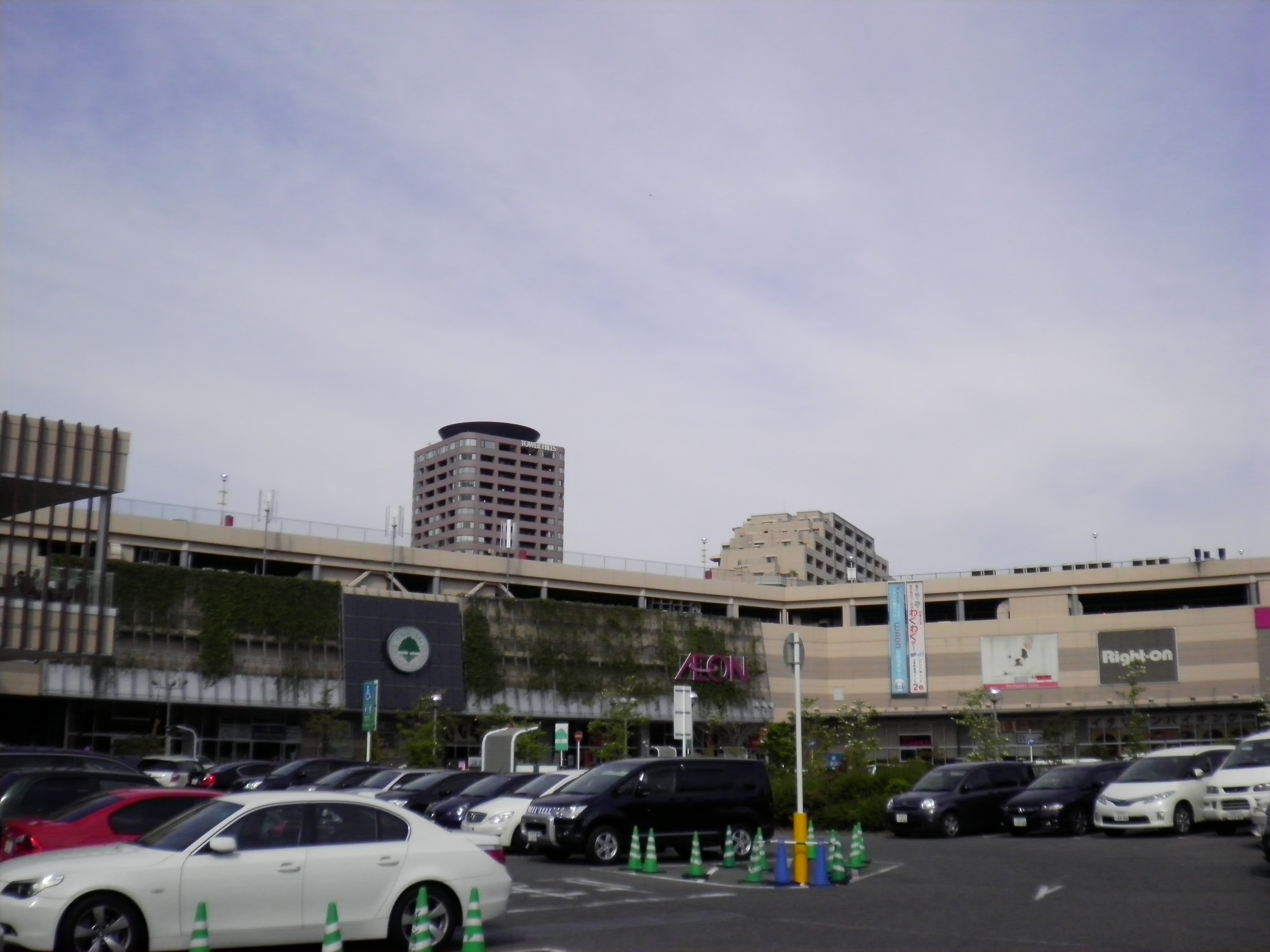 aeon_chikusa_shopping_center